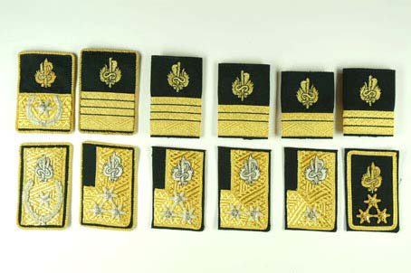 This image is in the public domain according to Austrian copyright law because it is part of a law, ordinance or official decree issued by an Austrian federal or state authority, or because it is of predominantly official use. (§7 UrhG) To uploader: Please provide where the image was first published and who created it. Bundespolizei – Distinktionen (Einsatzkommando Cobra), Bild 1